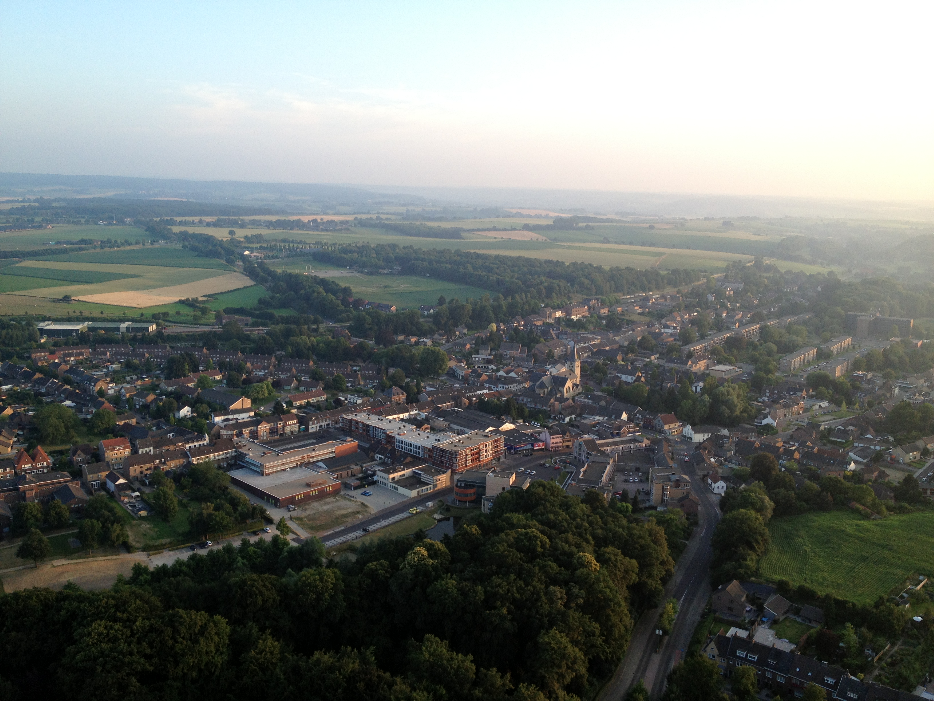 Aerial view of Simpelveld, Netherlands